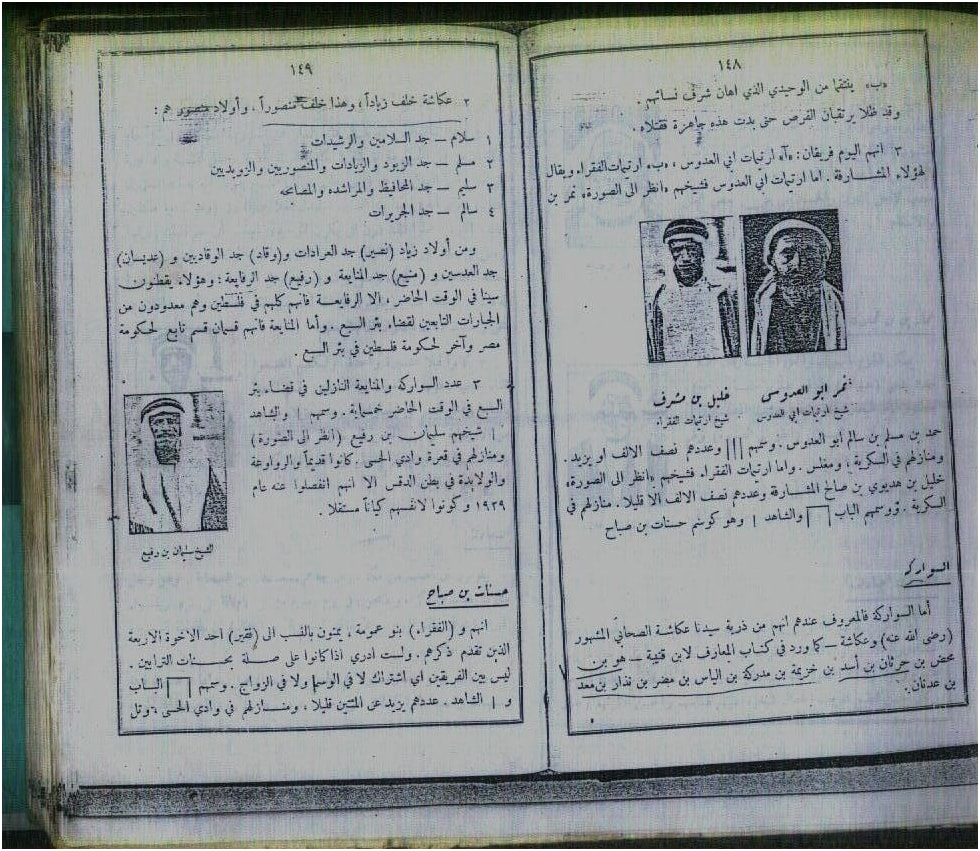 swarka in the past